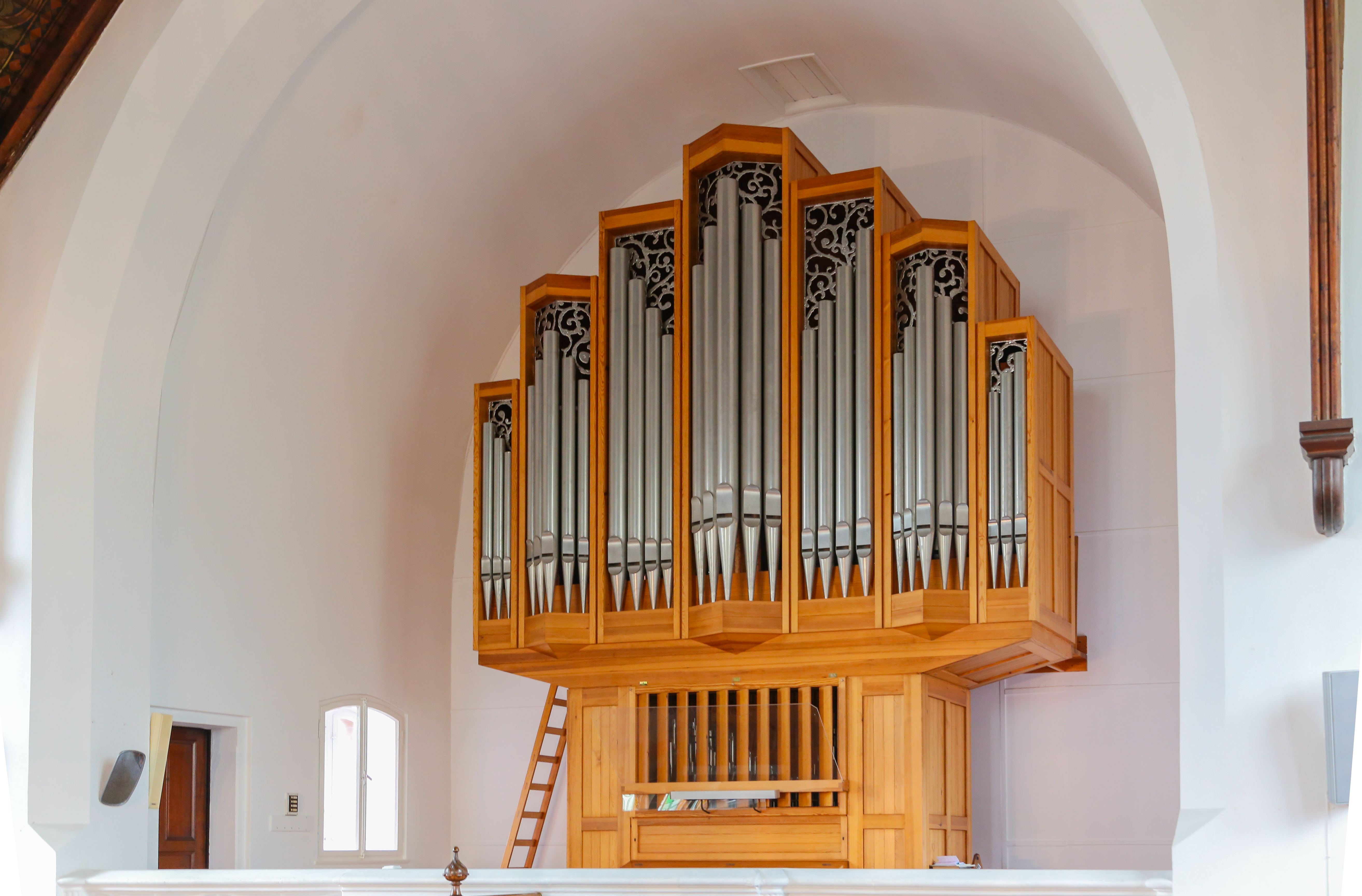 Piper organ of the Reformed Church in Borkum, Landkreis Leer, Lower Saxony, Germany.